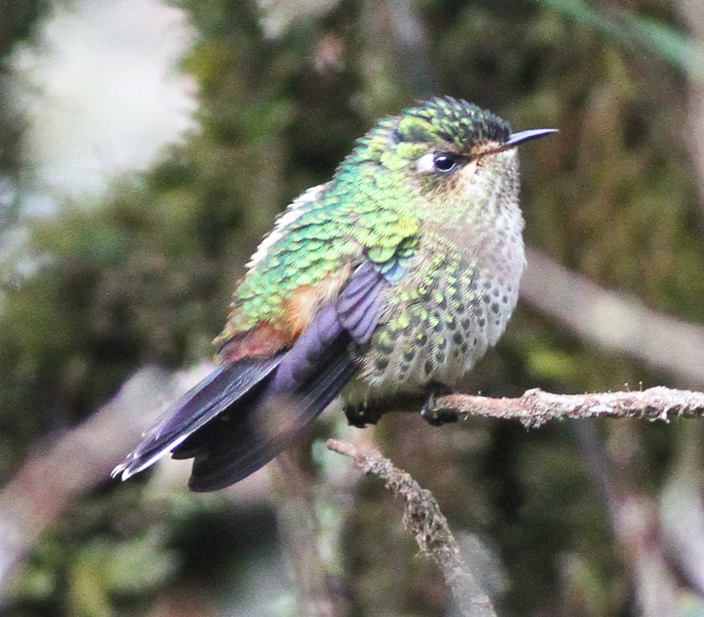 Purple-backed Thornbill (Ramphomicron microrhynchum) female at Purace National Park, Cauca, Colombia